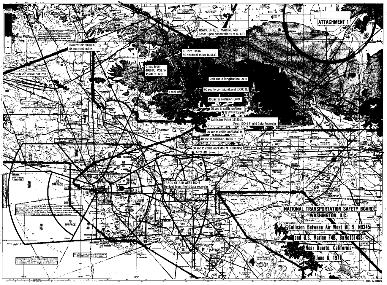 Map of the collision area of Hughes Airwest Flight 706 and a Marine Corps F-4B Phantom II on June 6, 1971 near Duarte, California. Image obtained from the official NTSB accident report.